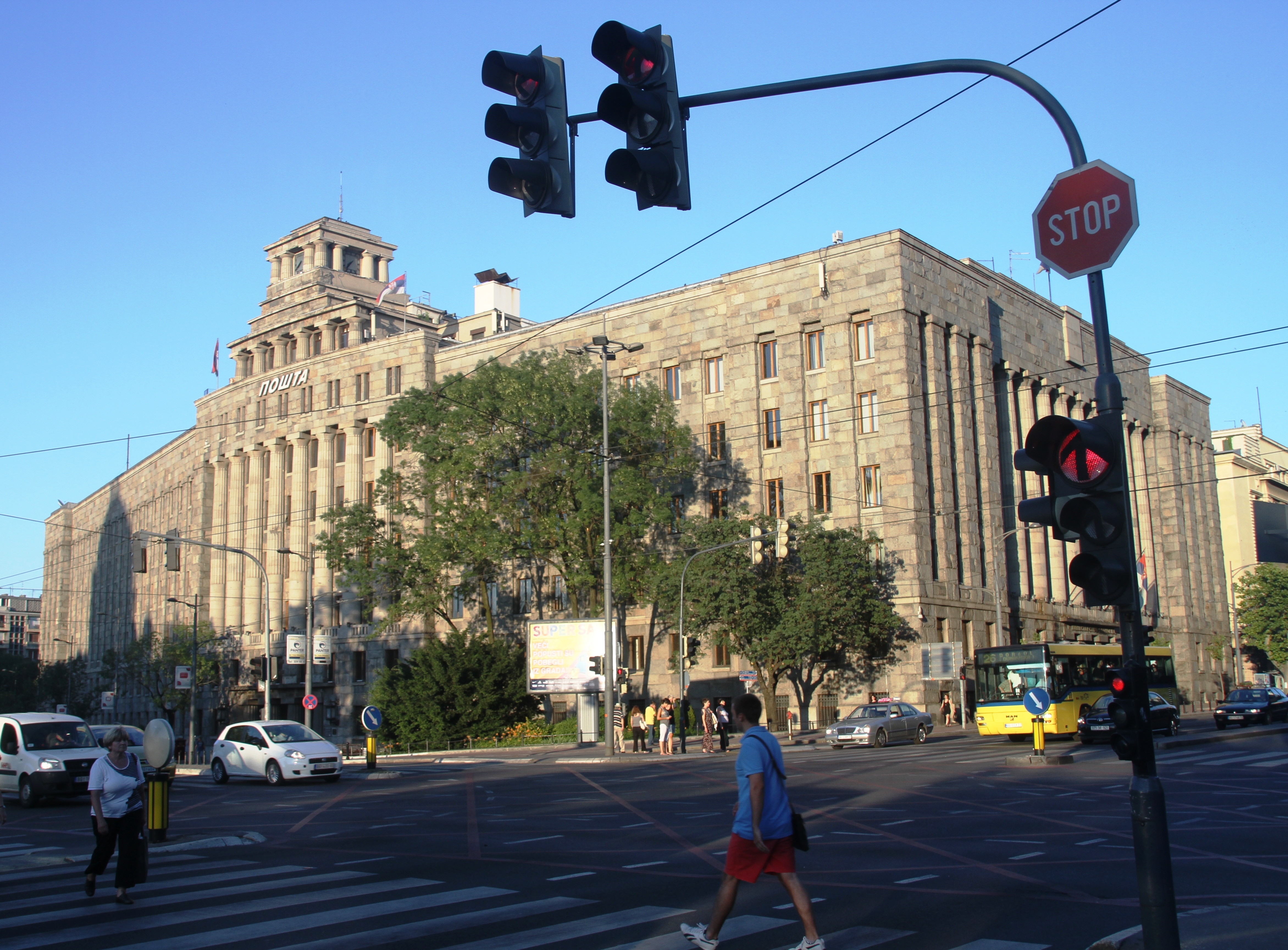 Main post office of Beograd, Serbia